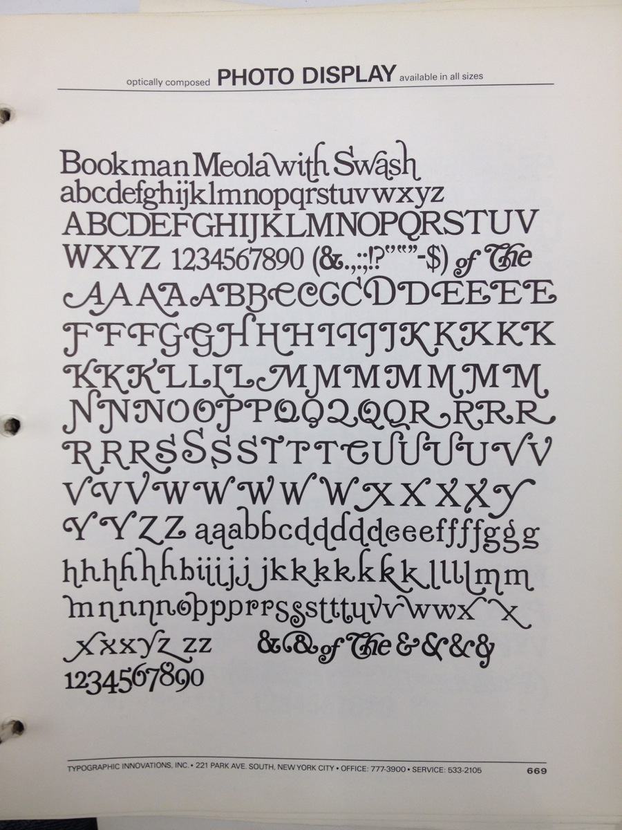 Bookman Meola specimen Featured on